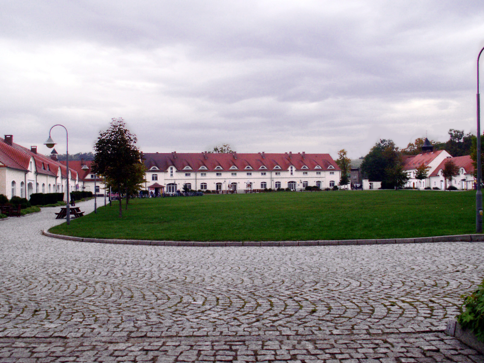 Estate in Krzyżowa. Now it is HQ of Krzyzowa Foundation for Mutual Understanding in Europe